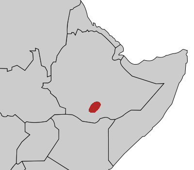 Prince Ruspoli's Turacos distribution